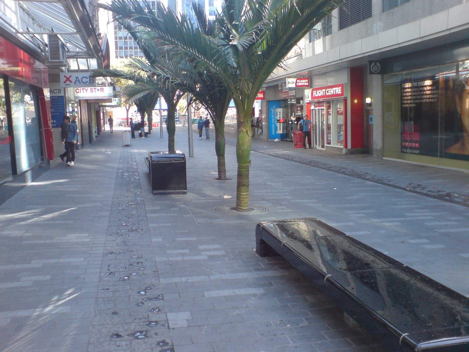 Darby Street shared space in Auckland, New Zealand. Looking west.